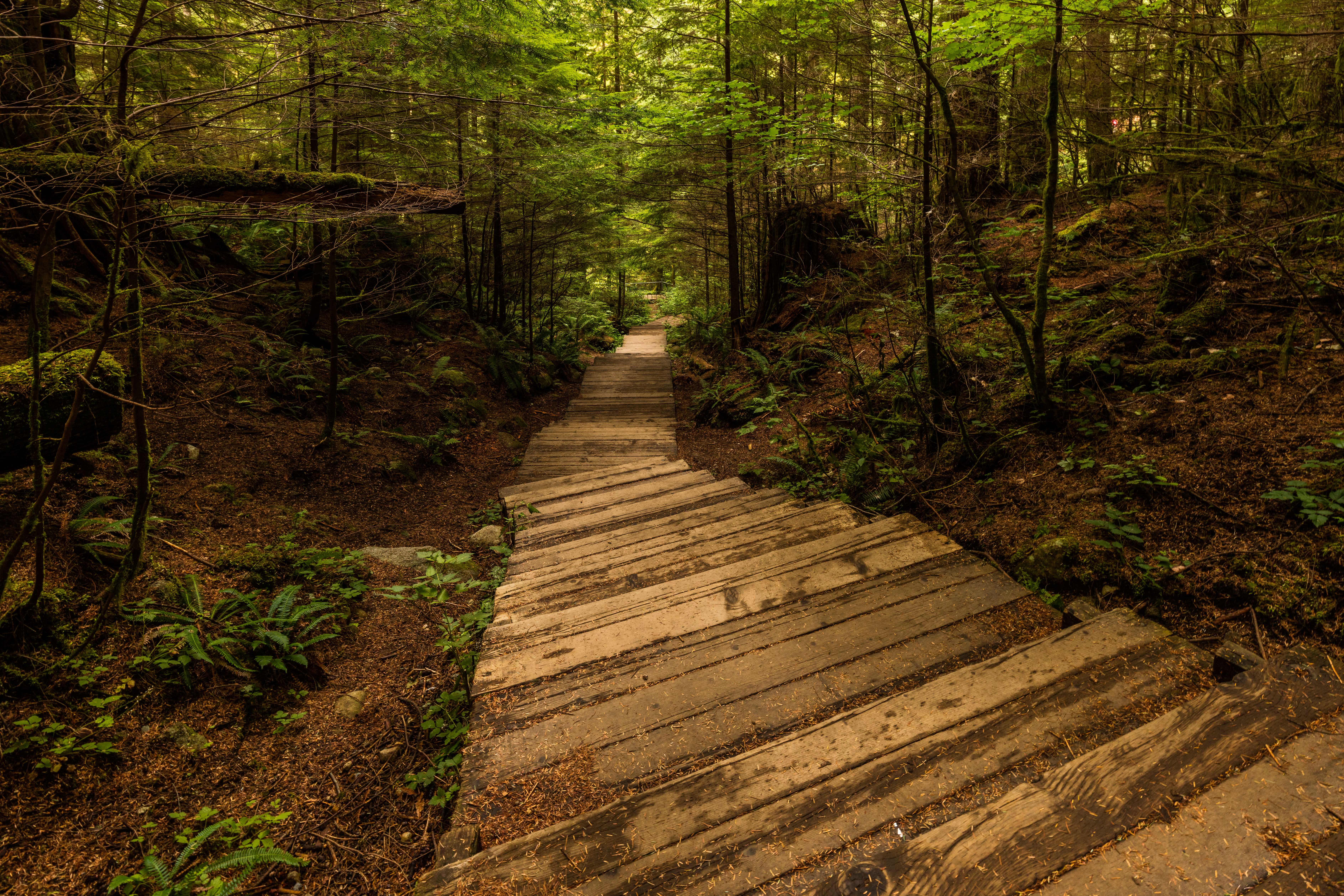 Lynn Canyon Park, Vancouver, Canada